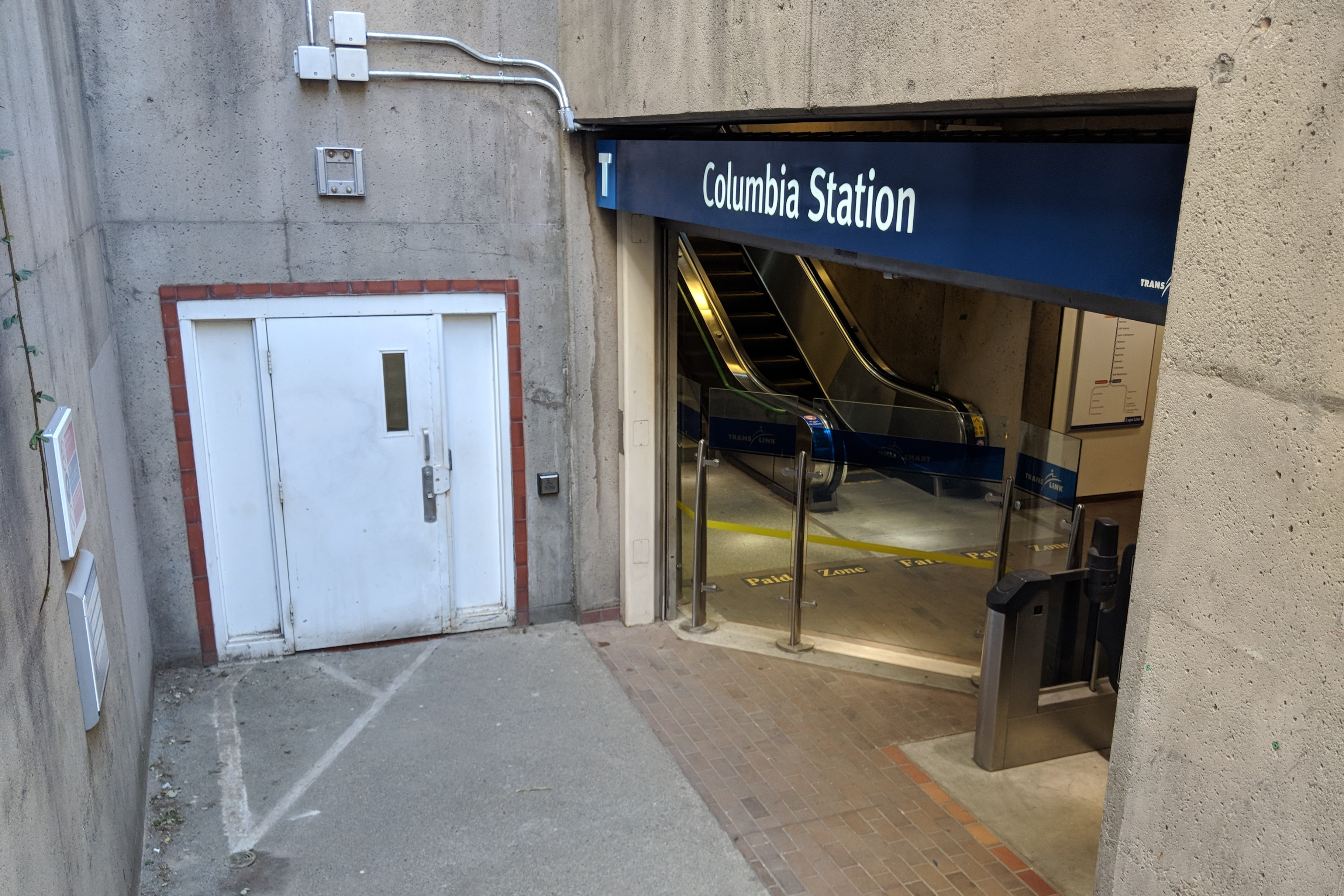 Clarkson Street entrance at Columbia station.